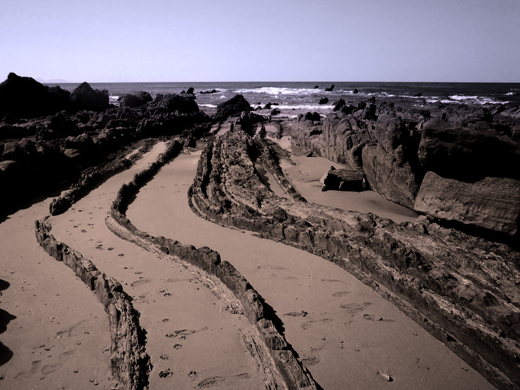 Folds on turbiditic layers. The turbidites are layered between softer materials, that are easily eroded and removed and then filled with sand on the coast. This folds are related with the Alpine orogeny and all the layers on the Basque Coast have a heavy folding. Barrika, Basque Country.